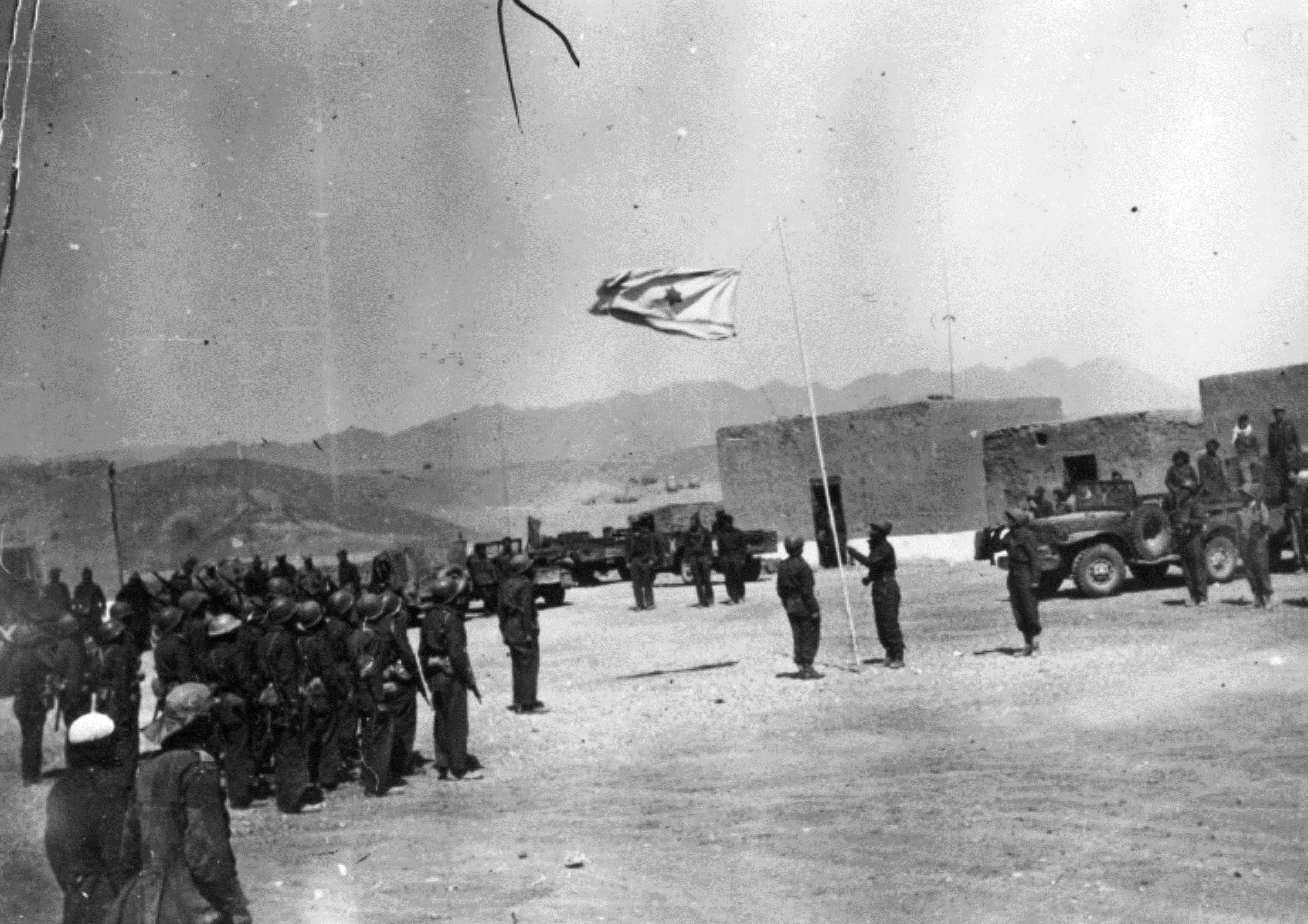 The Palmach, Israel Defense Forces